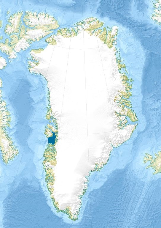 Disko Bay map